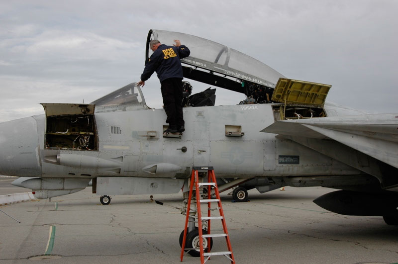 DCIS special agents protect critical military technologies.